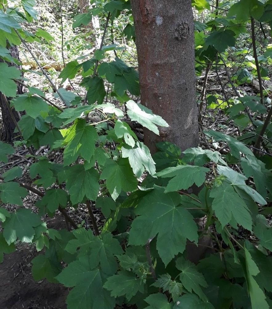 Acer pseudoplatanus trunk and leaves